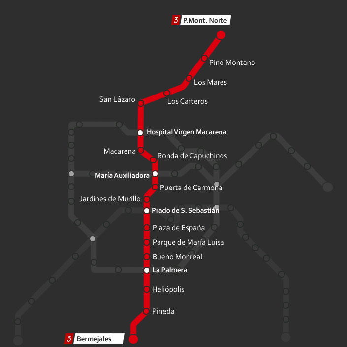 Map L3 Seville metro